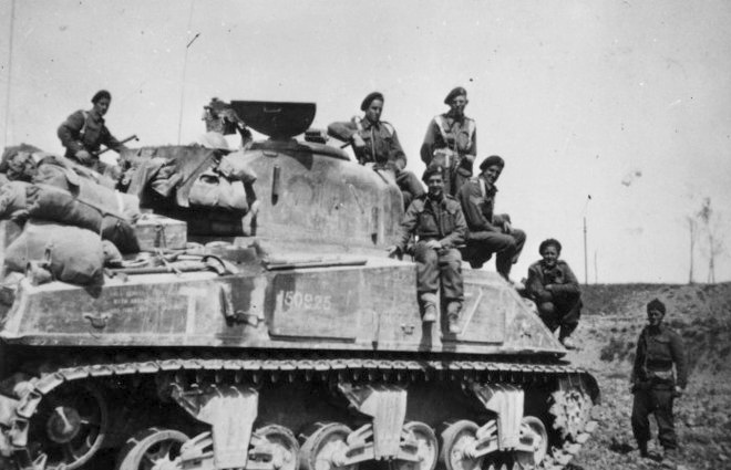 Soldiers of 18th Armoured Regiment, and tank no 7, ready to cross the Po River in Italy. From left to right (excluding the man on the ground, on far right): Jack Bennie, Meave Davis or Les Betts, Allan Williamson, Bill Lynn, Spud Crispin, George Kimberly. Taken by an unidentified photographer during World War II.